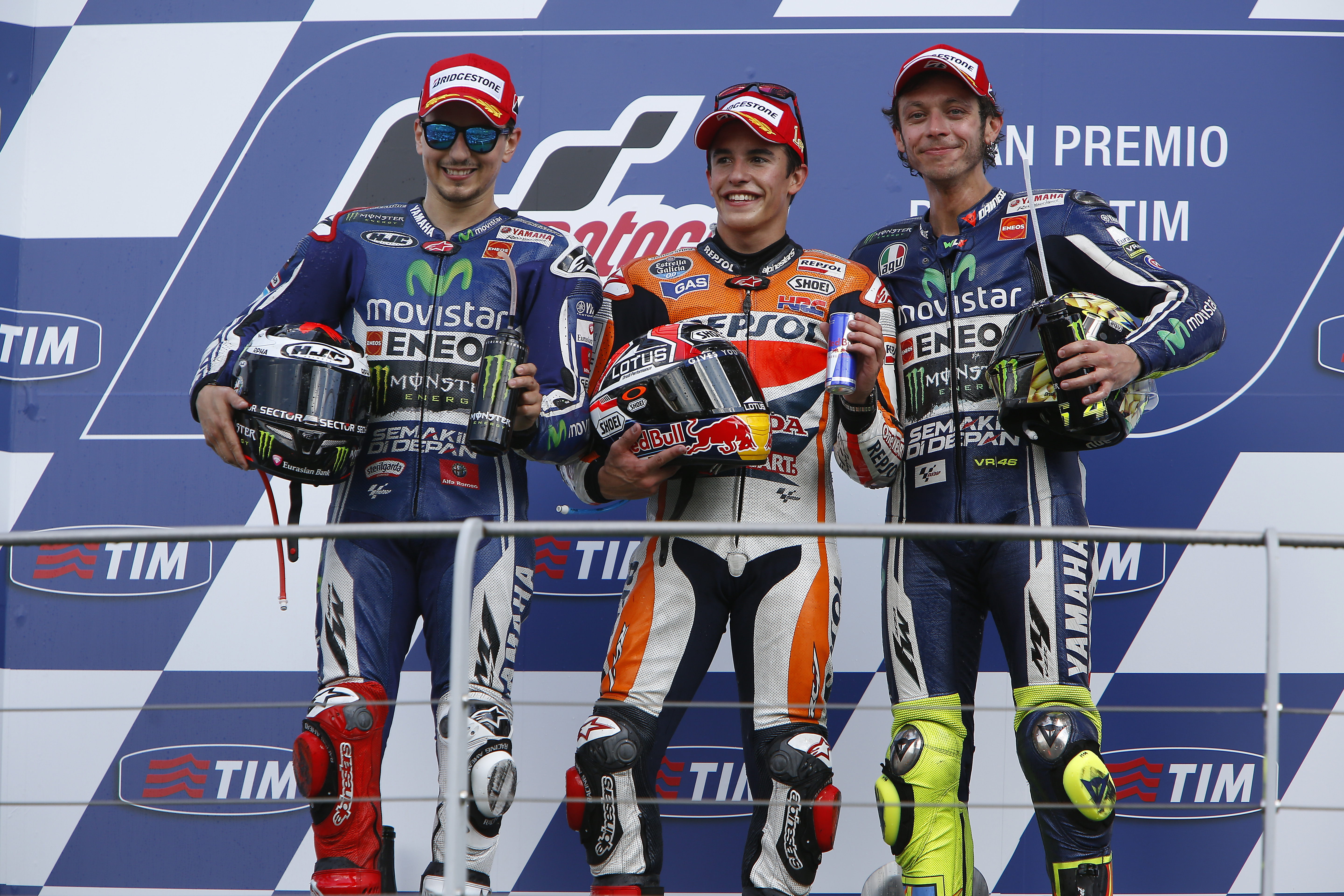 Jorge Lorenzo, Marc Márquez and Valentino Rossi, celebrating on the podium after finishing in second, first and third place at the 2014 Italian Grand Prix.